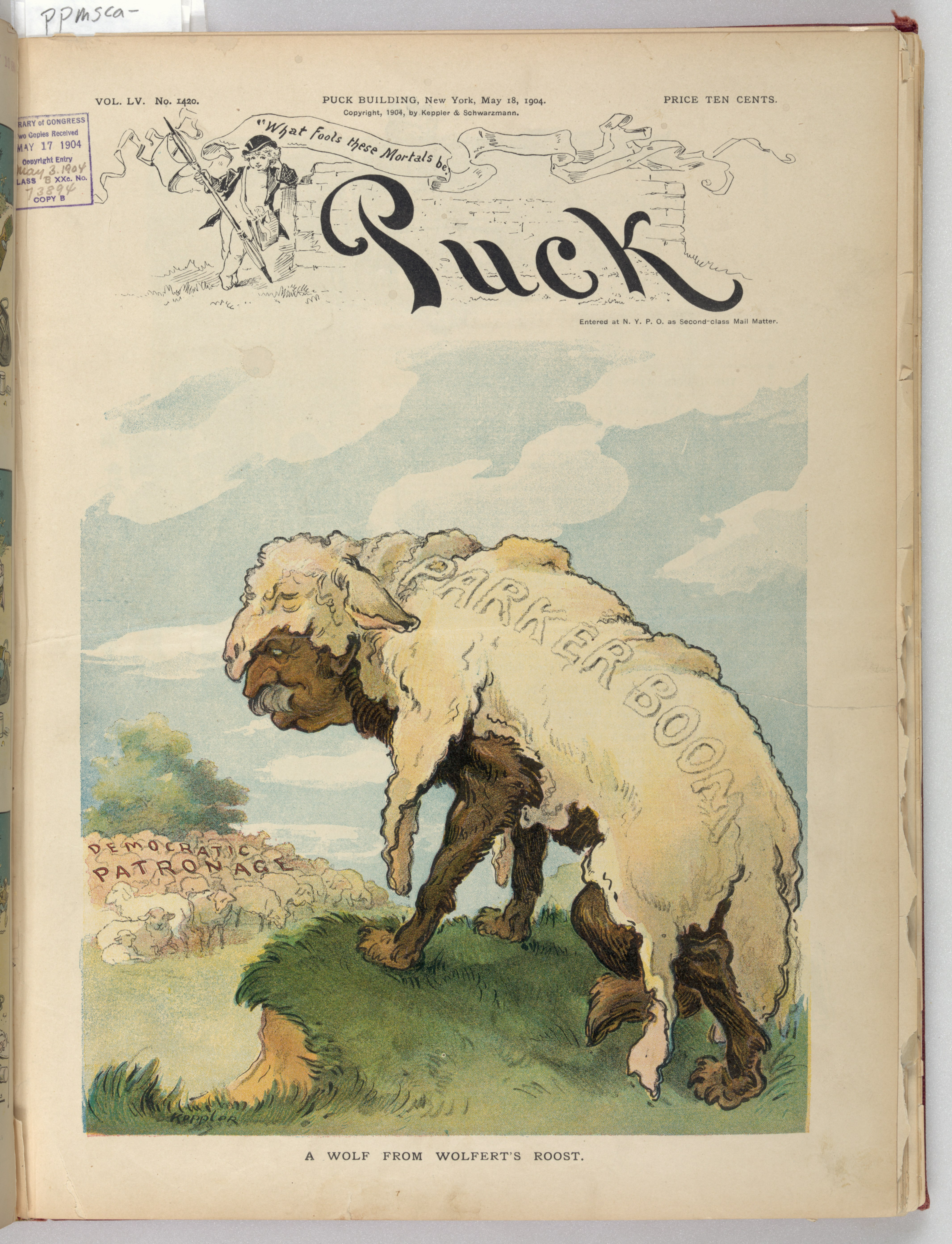 Title: A wolf from Wolfert's Roost / Keppler. Abstract/medium: 1 photomechanical print : offset, color.